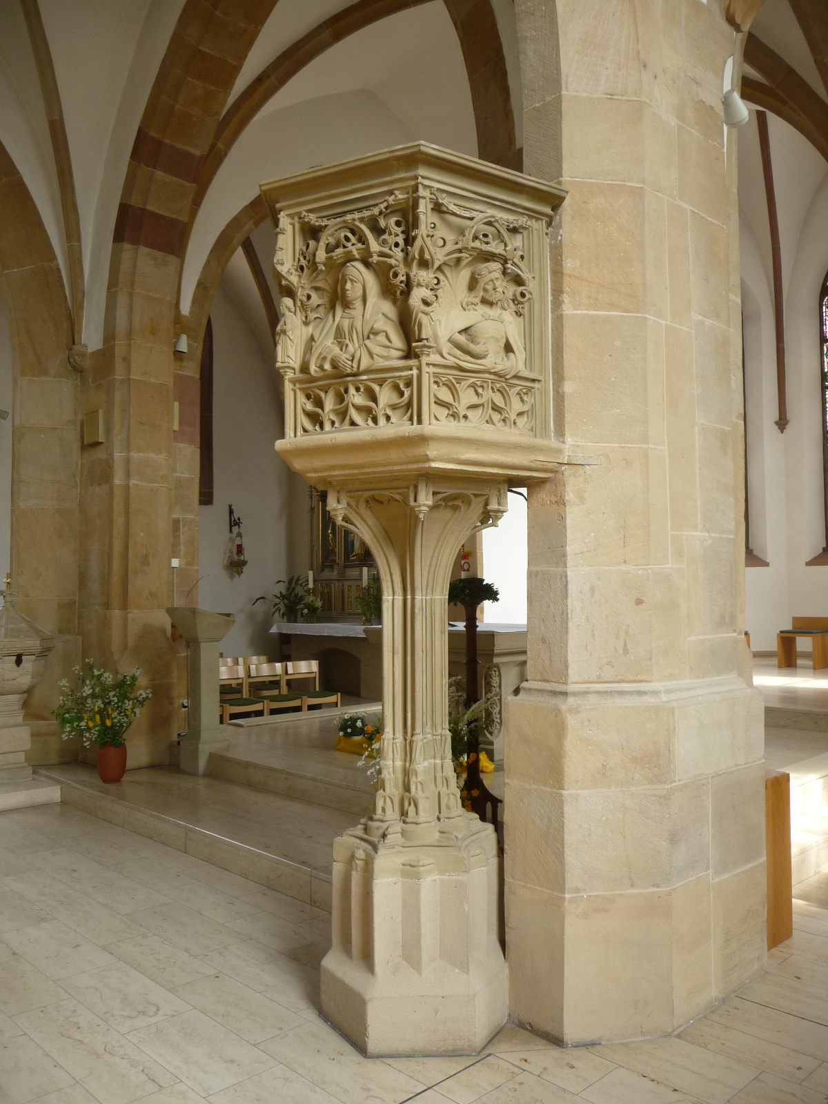 Ruppertsberg, Rhineland-Palatinate, Germany, gothic pulpit